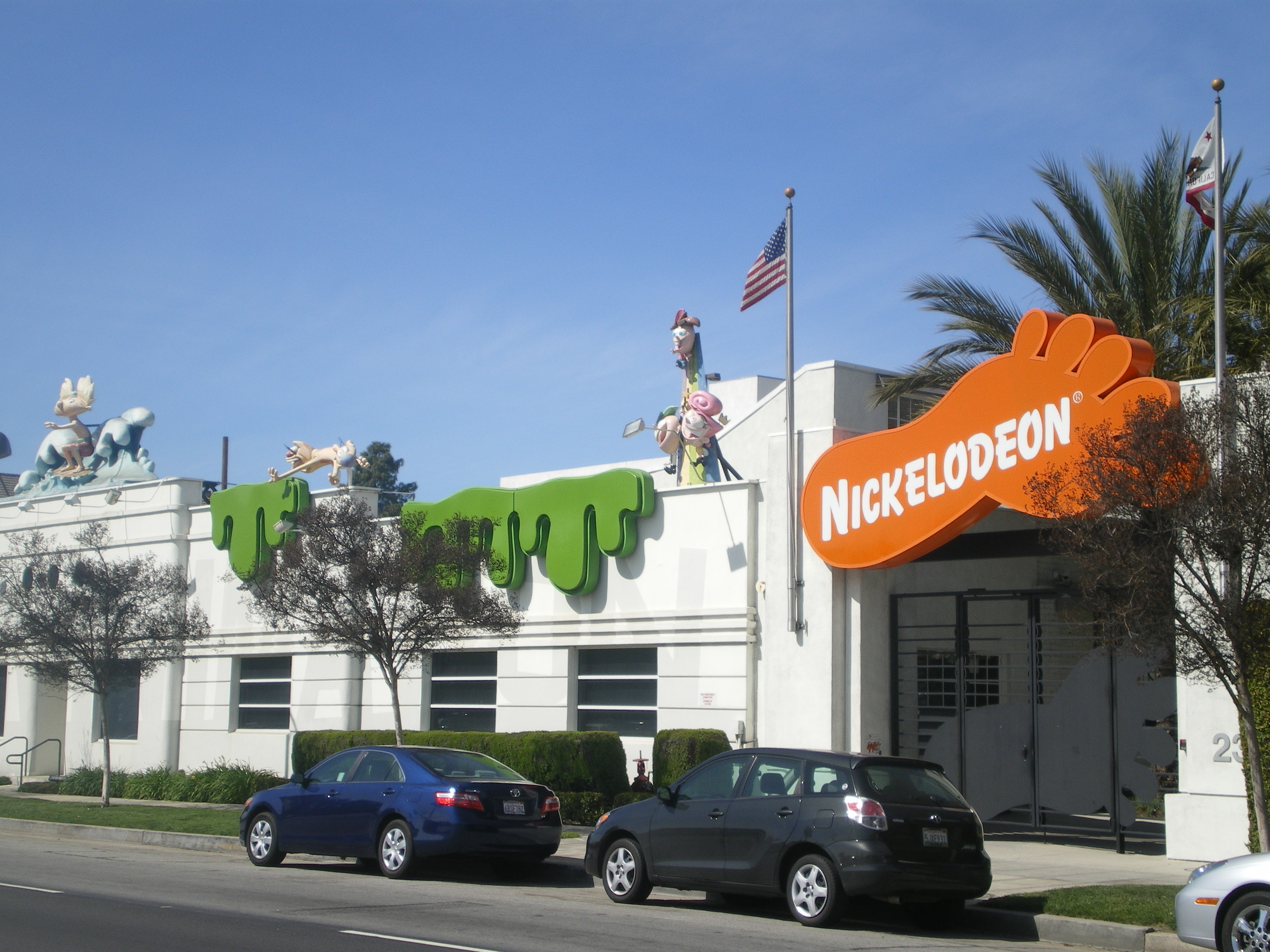 Nickelodeon Studios, Olive & Victory, Burbank Olive & Victory in Burbank, CA